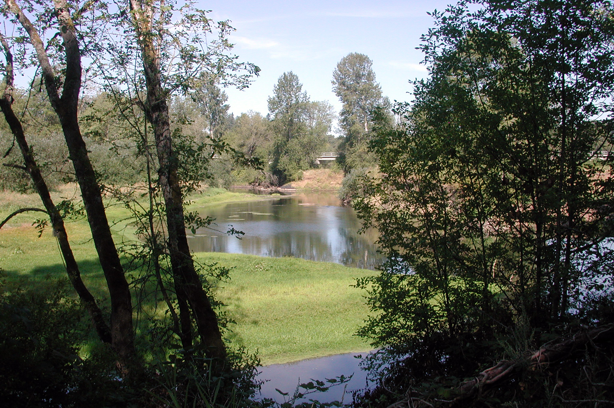 Pudding River near Aurora, Oregon, United States. View is to the southwest from a short side road running west from U.S. Route 99E.